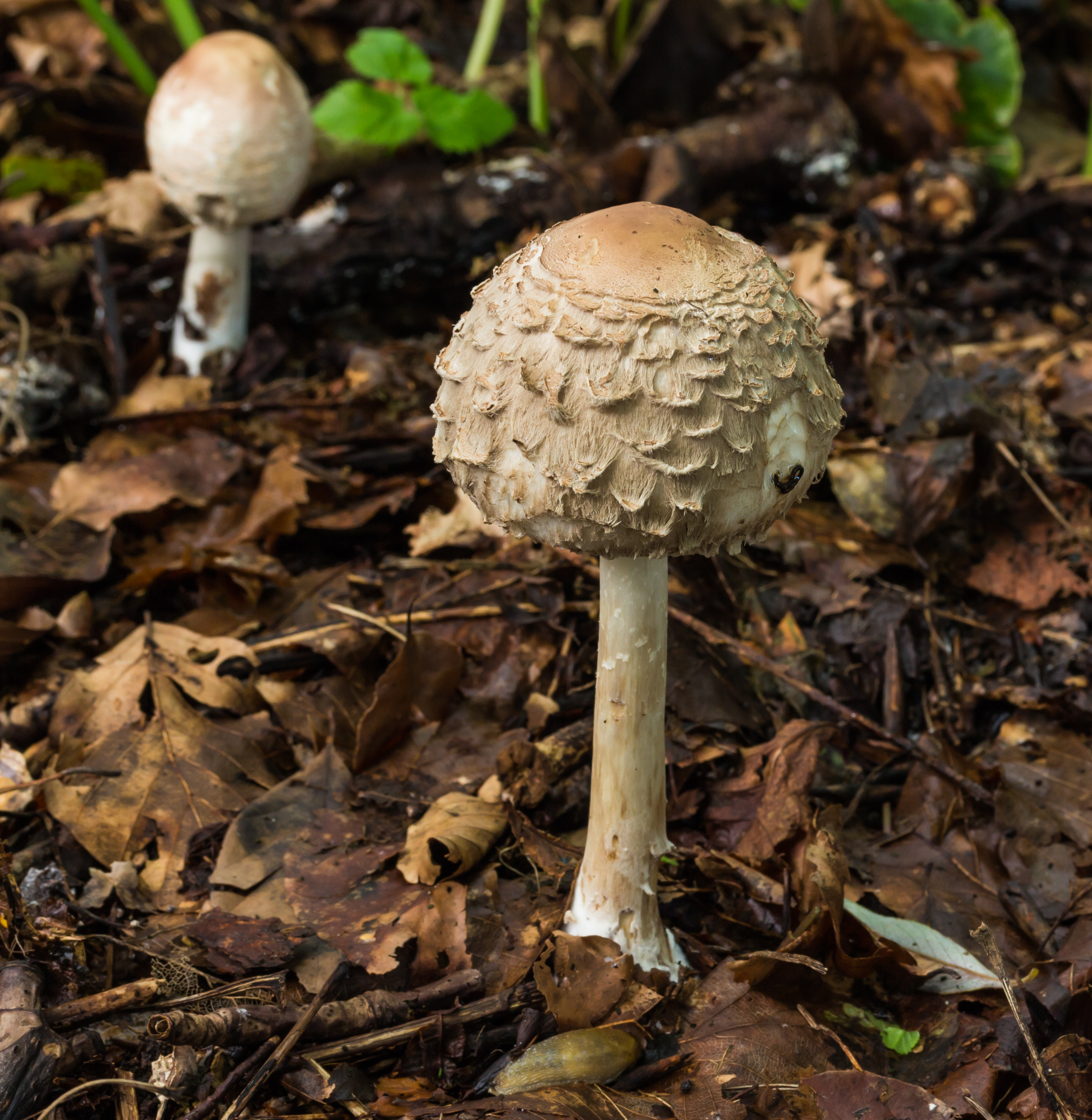 Knolparasolzwam. (Chlorophyllum rhacodes).